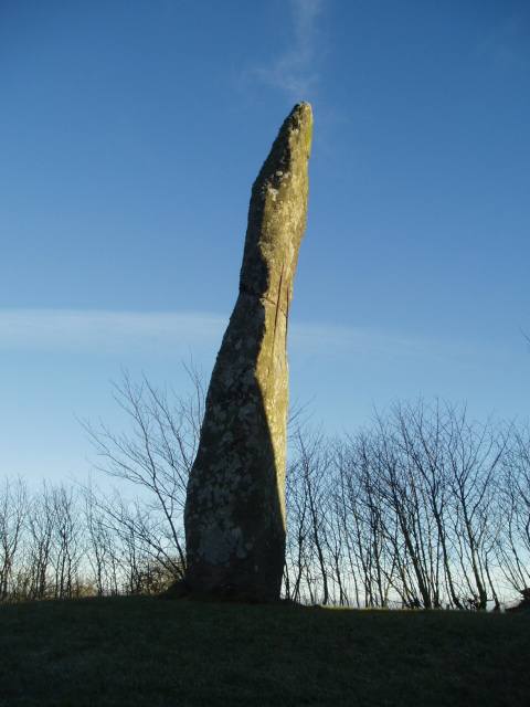 Slummesten is an impressive standing stone of almost six metres height which is part of Broåsen's grave field.